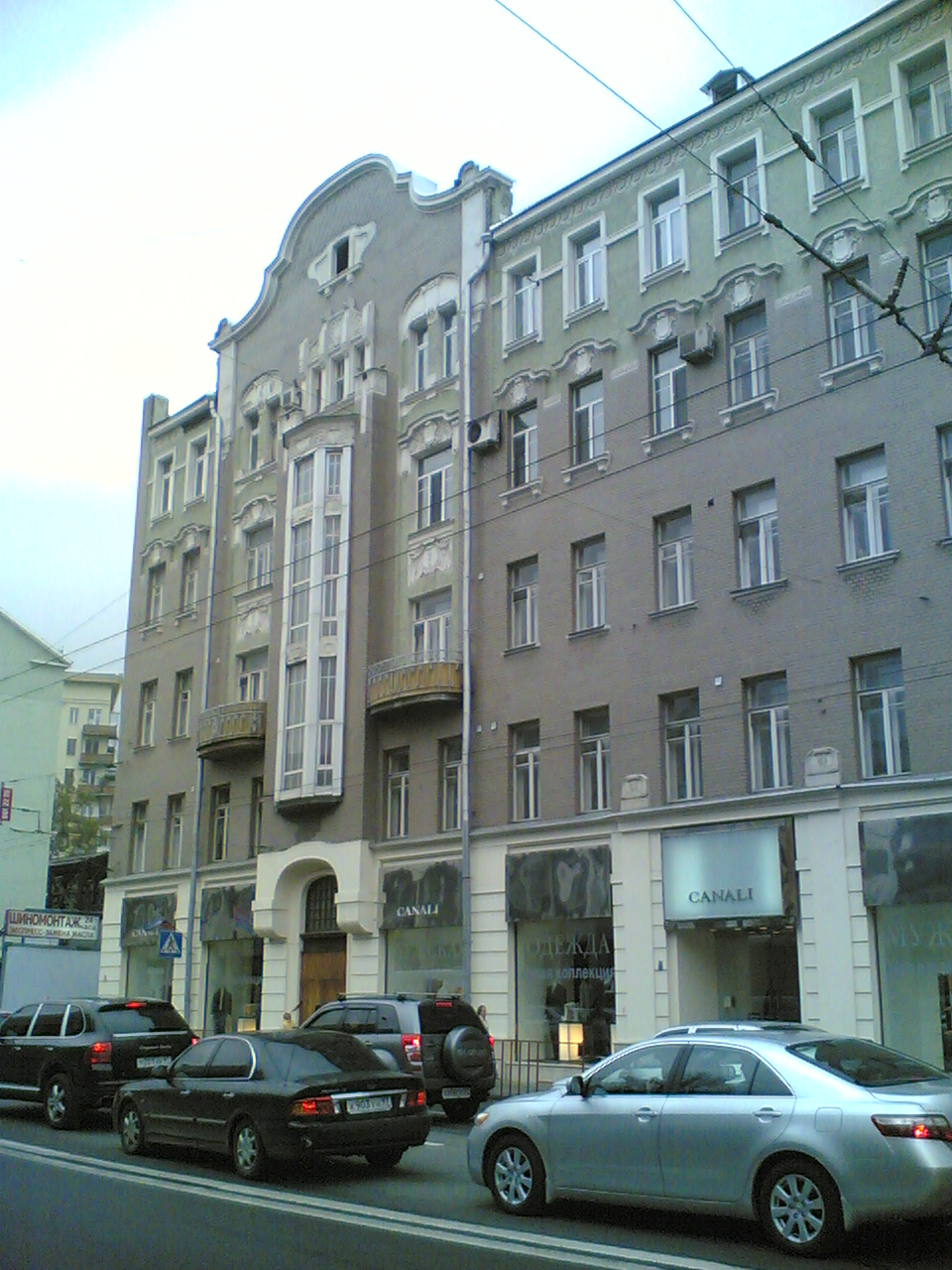 "Renditenhaus" designed at the style of modern. Moscow, Pokrovka, 44. Architect Vladimir Sherwood, 1909.